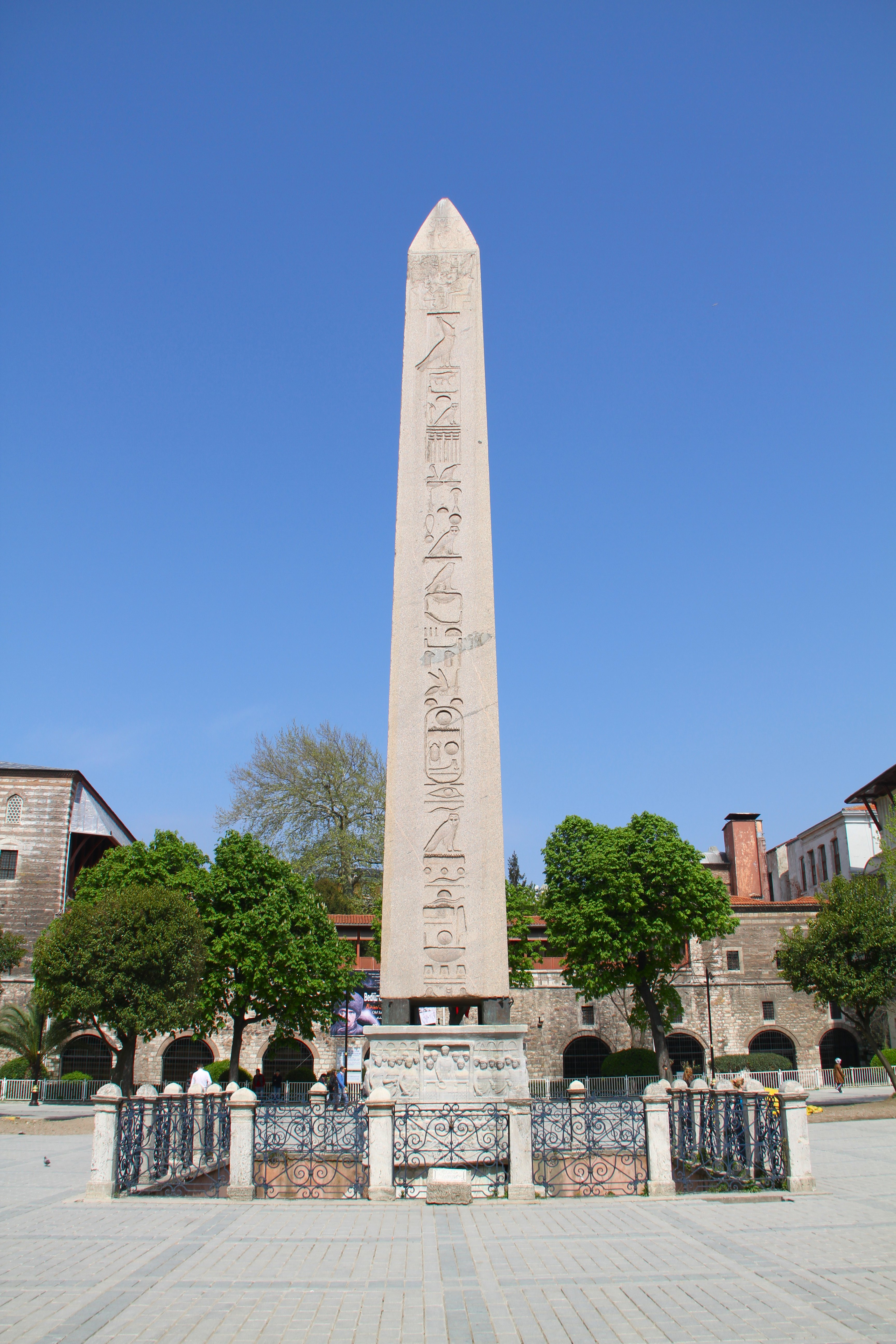 Byzantian Obelisc of Theodosius at Istanbul, May 2011